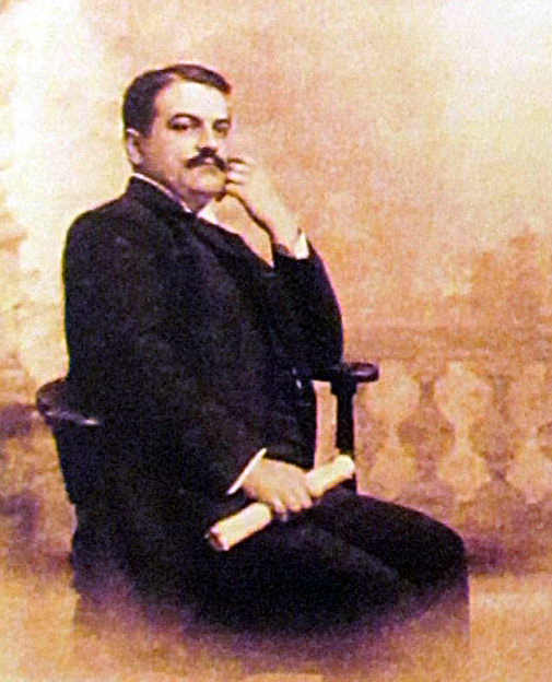 Jakov M. Nenadović (1865-1915), Serbian diplomat